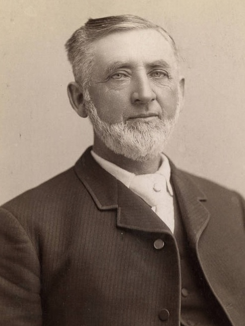 Photo of Charles Henry Wilcken, a German-American artilleryman who was awarded the Iron Cross by the King of Prussia, Frederick William IV. Later Wilcken served as the friend, driver, and bodyguard for LDS Church presidents John Taylor and Wilford Woodruff.